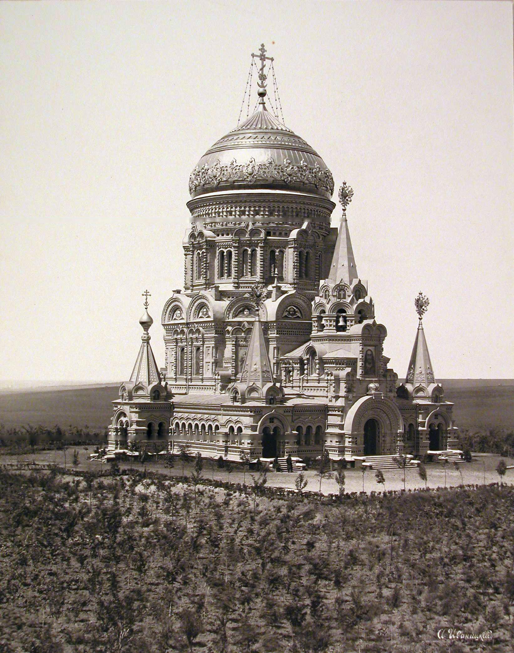 View of the Cathedral of Christ the Savior in Borki (architect R.R. Marfeld; founded on 21 March 1891, erected at the crash site of the Imperial train on 17 October 1888.)